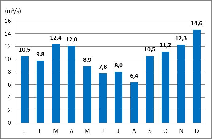 Hydrogramm of Dravinja River at gauging station Videm in 1981–2010